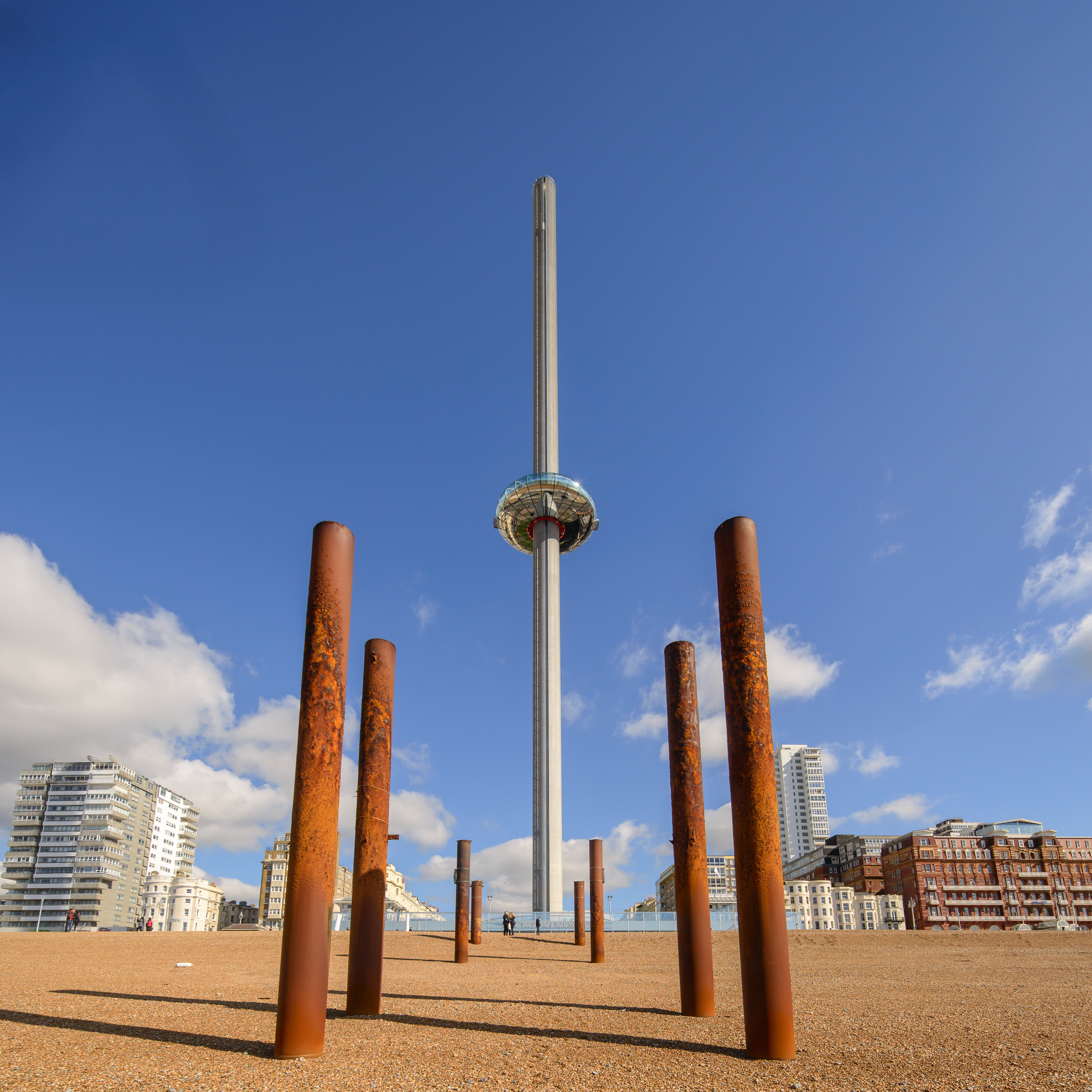 New and old monuments on the Brighton seafront. Remains of the historic West Pier and the new British Airways i360. Wikidata has entry Q3081510 with data related to this item.